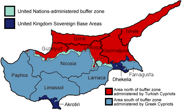 Map of the districts of Cyprus, with English annotations, and showing the Turkish Republic of Northern Cyprus, United Kingdom Sovereign Base Areas, and United Nations buffer zone. The TRNC section illustrates the current de facto district boundaries following this map as a guide. The northern districts are labelled in Turkish.